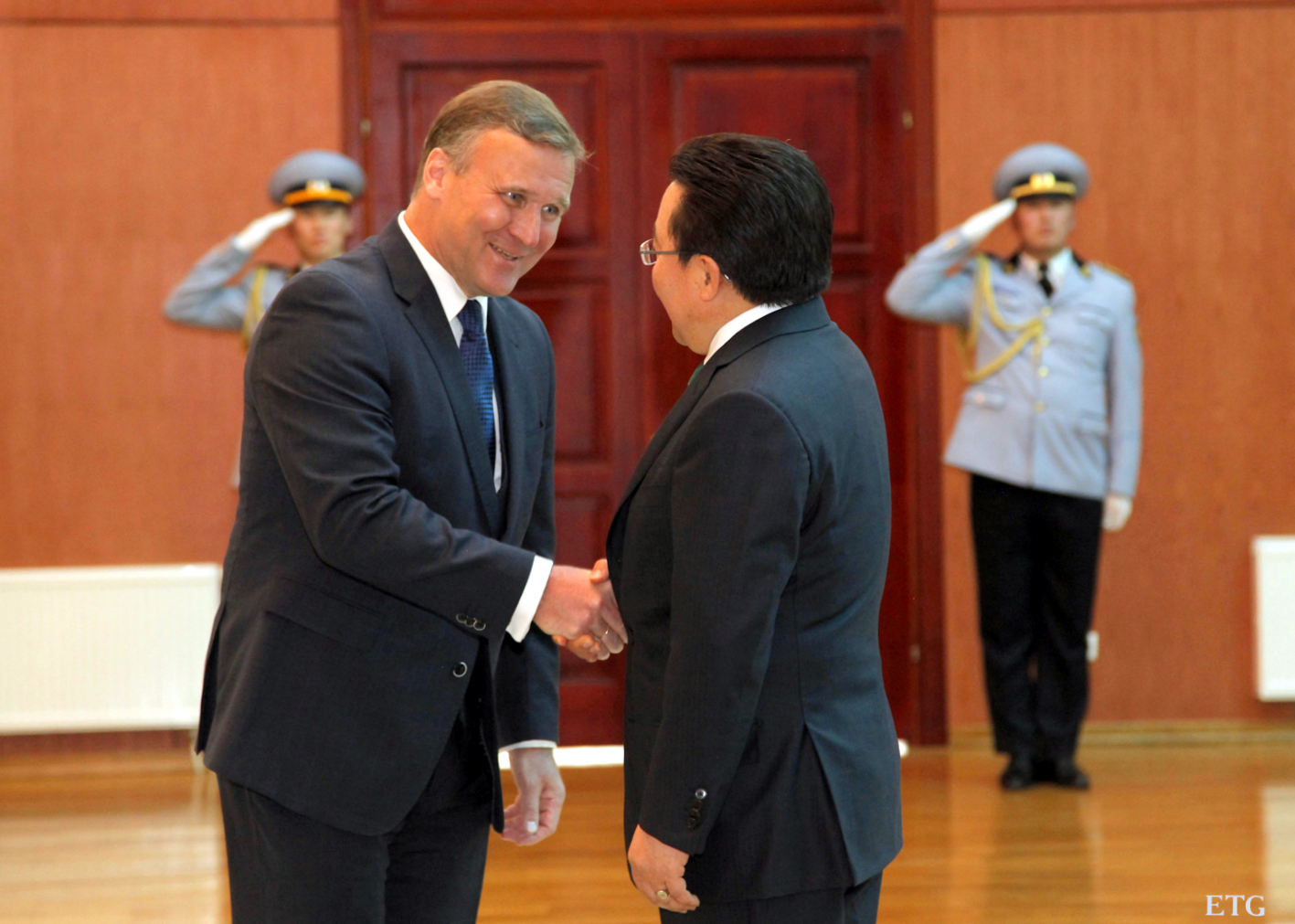 Estonian Ambassador to Mongoli H.E. Mr Toomas Lukk and President of Mongolia Tsakhiagiin Elbegdorj